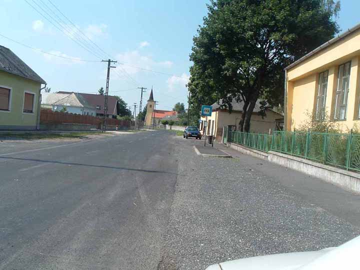 The main street of Veszprémgalsa, Hungary